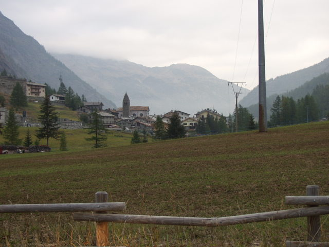 Overview of Valgrisenche (Aosta Valley, Italy)